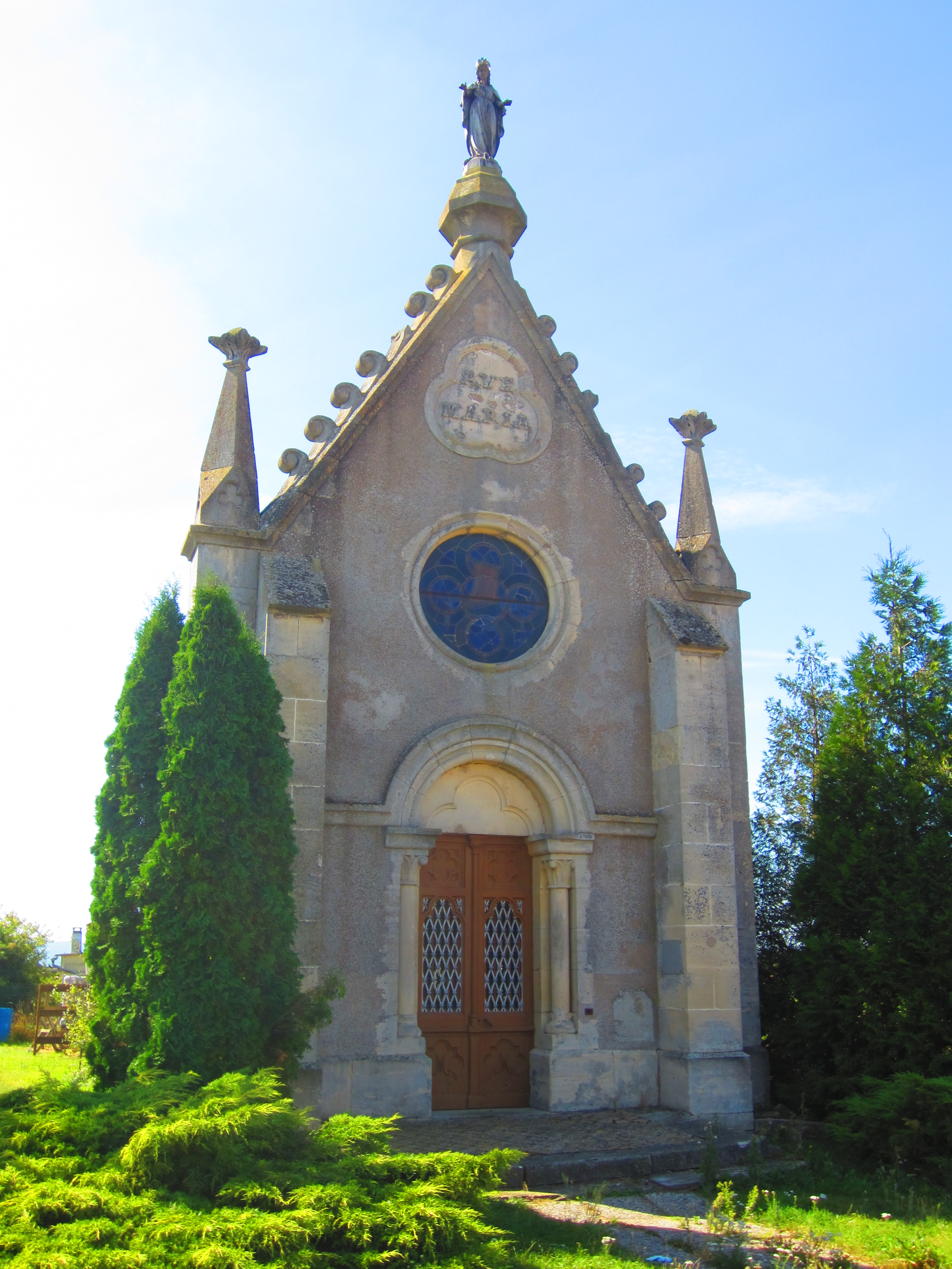 Puzieux chapel